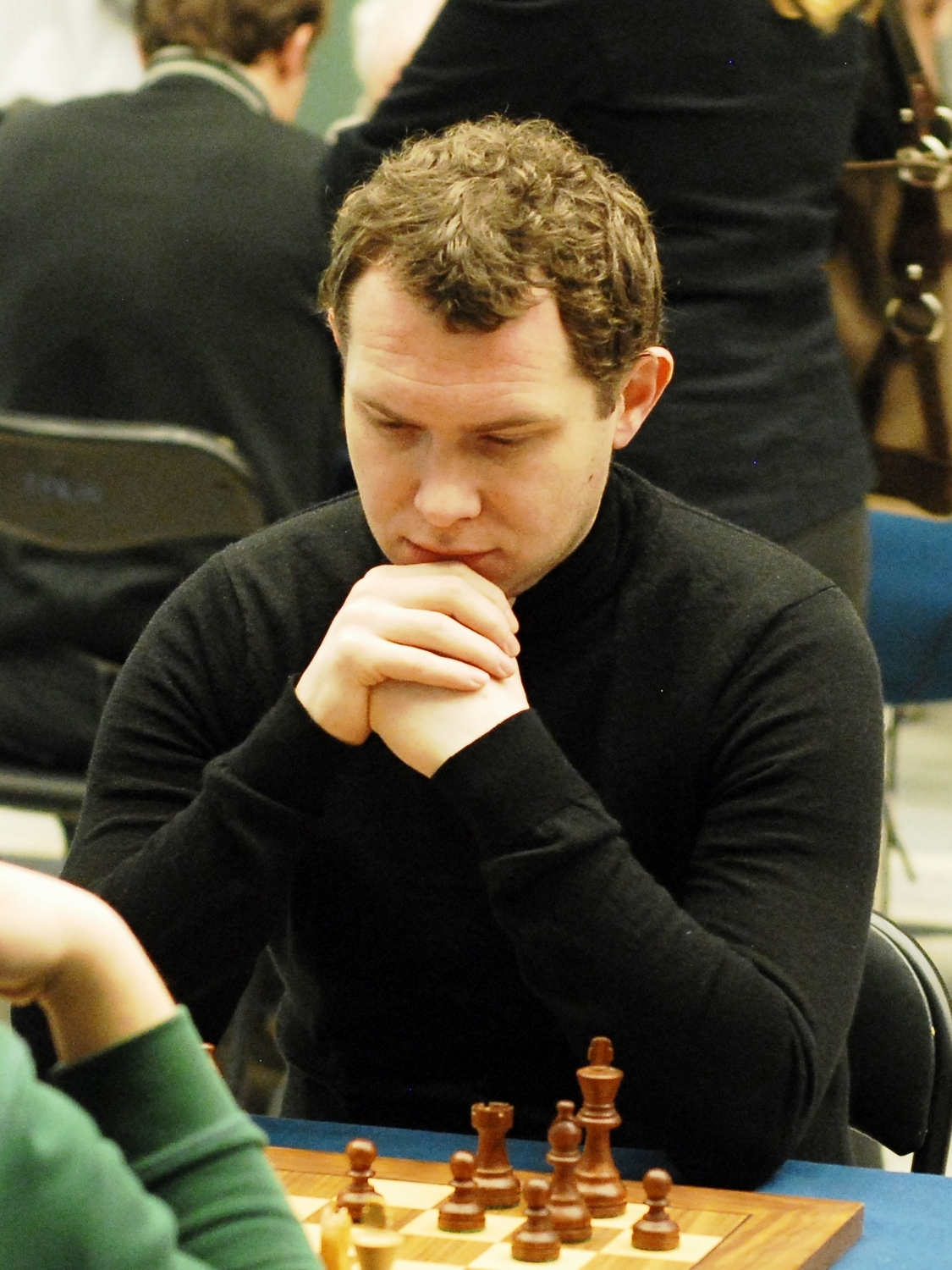 GM Jean-Pierre Le Roux, European Rapid Chess Championship, Warsaw 2012.